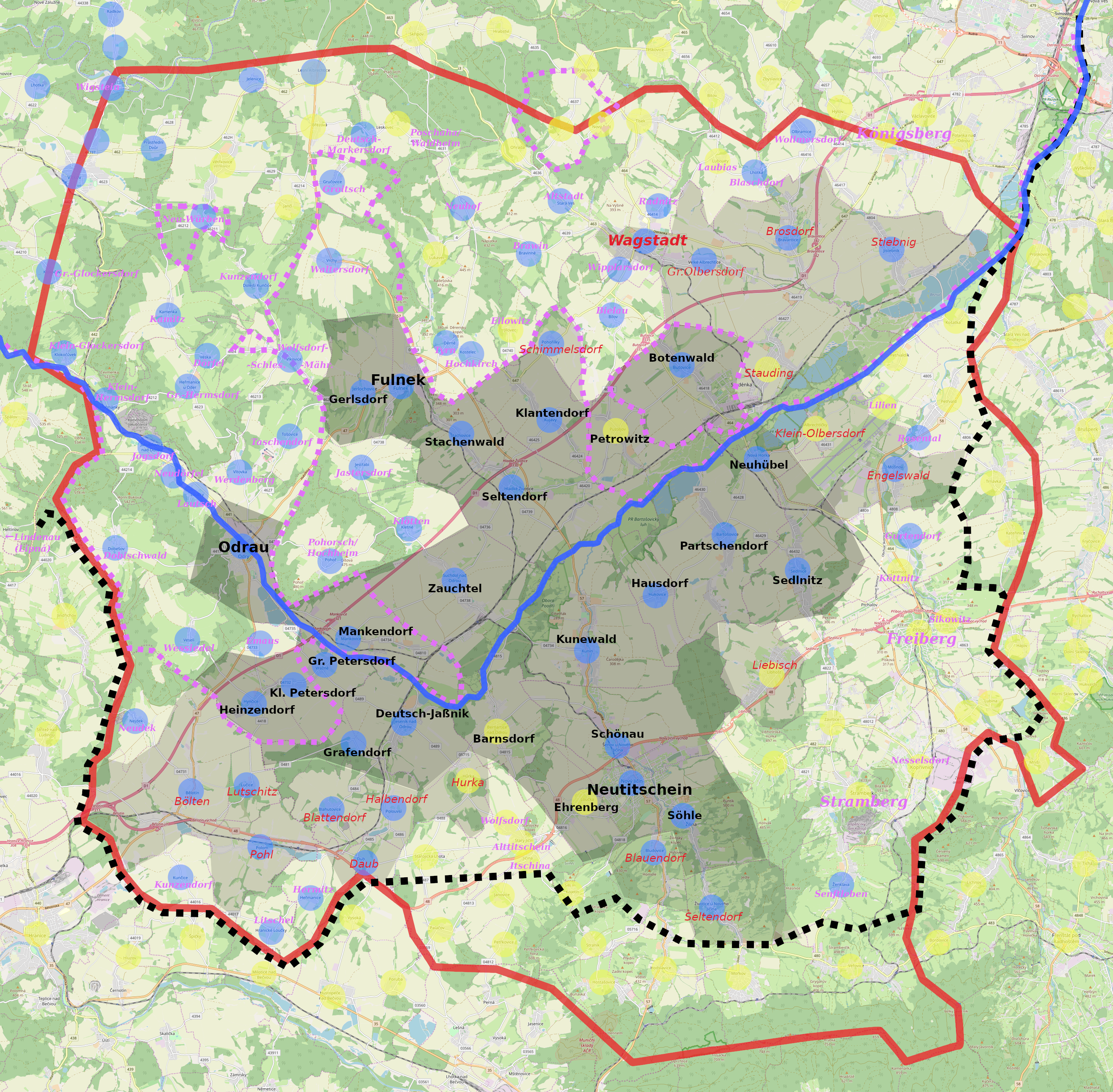 Historical region of Kuhländchen/Kravařsko: red line: idealized borders (from p.25) blue line: Oder river pink dots: Silesia/Moravia border/enclaves (Austrian times), black dots: Gau Sudetenland (1939-1945, more or less, see also the list of municipalities) big blue dot: majority German-speaking settlement (1900 census) big yellow dot: majority Czech-speaking settlement (1900 census) black German name and darker background: always considered part of Kuhländchen red cursive German name and lighter background: many times considered part of Kuhländchen pink cursive German name: once considered part of Kuhländchen (the last names are from: [1] Das Kuhländchen: Hundert Orte, die seit dem 18. Jahrhundert einmal, mehrfach oder immer zu dieser Landschaft gezählt worden sind;) See also: [2]